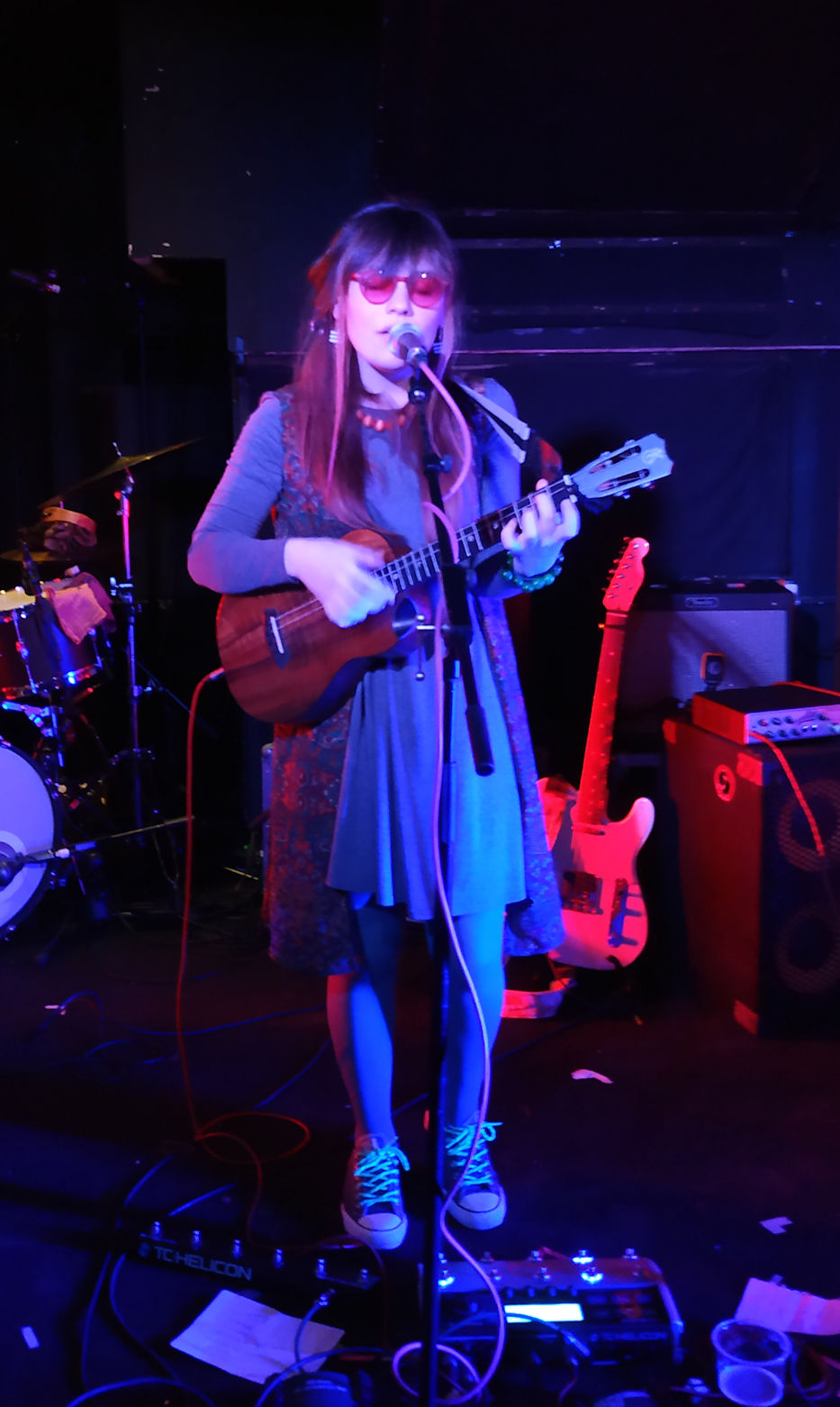 Image of singer-songwriter Zoë Bestel, playing her Ukelele. The picture was taken on 6th November 2019 in Glasgow, in the performance venue of the pub called 'The Hug and Pint'